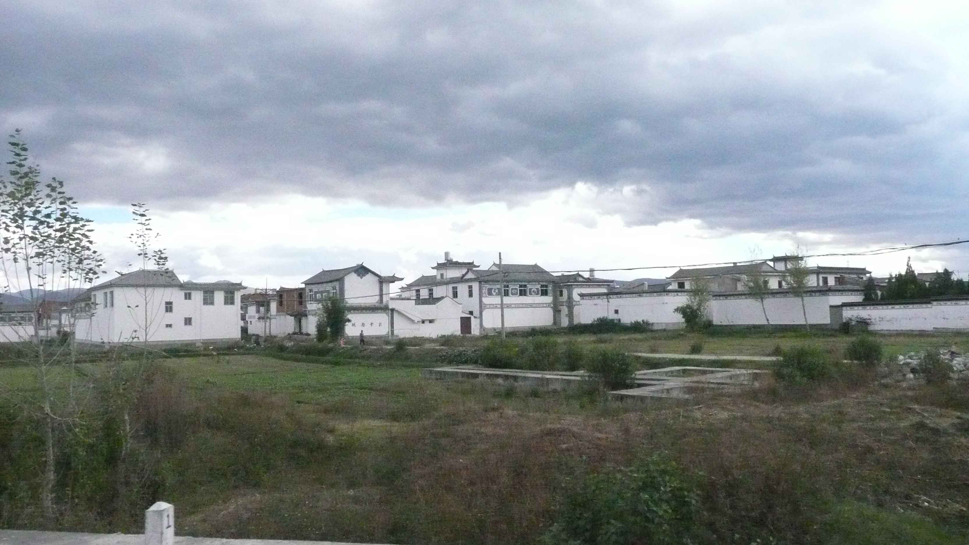 Xizhou town, Dali (Yunnan)